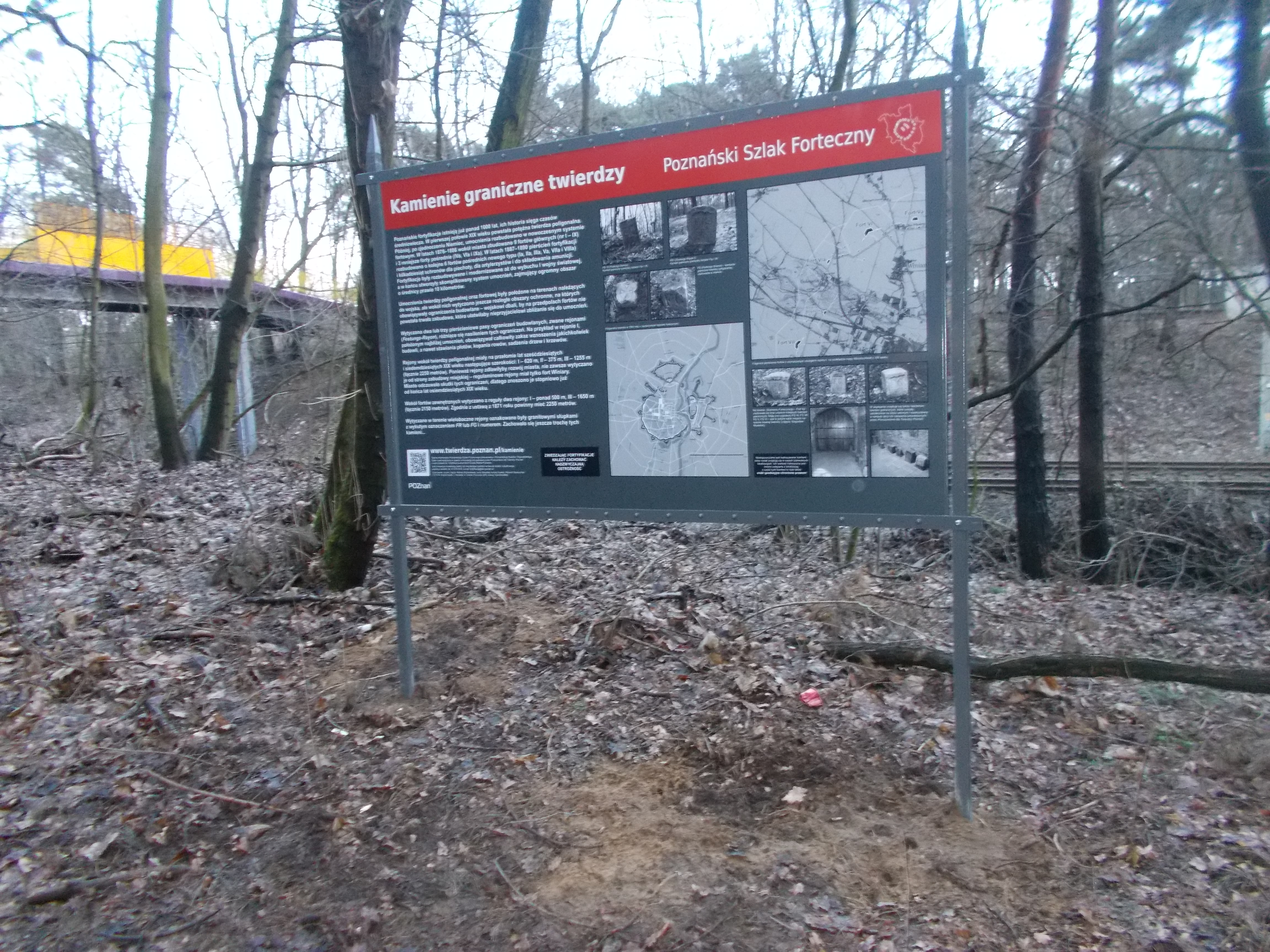 Boundary marker (information board)